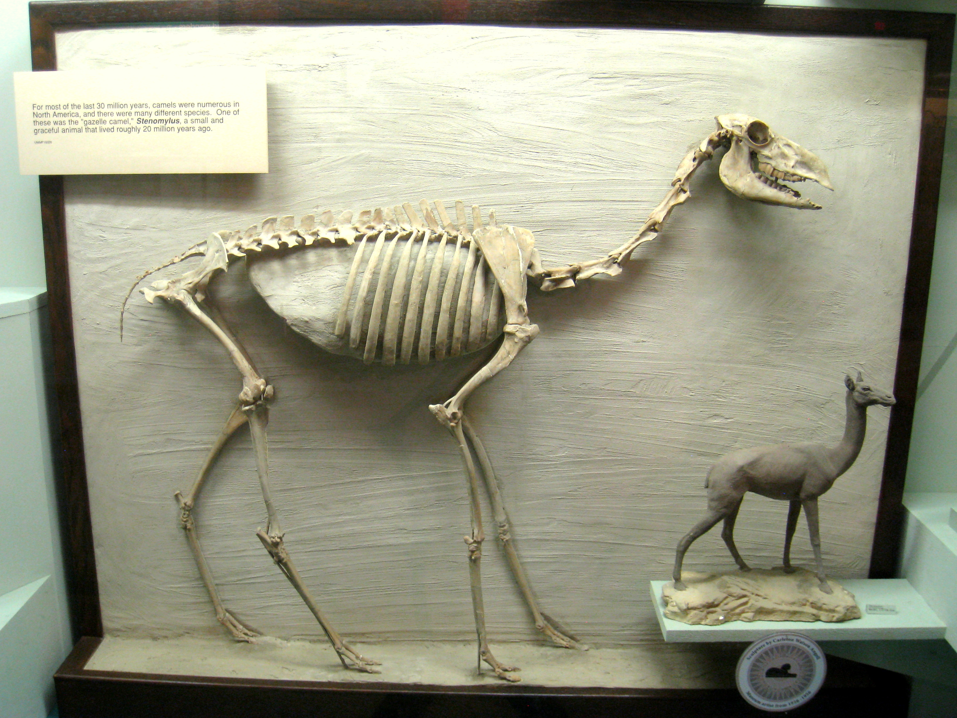 Stenomylus. Exhibit Museum of Natural History, University of Michigan, 1109 Geddes Avenue, Ann Arbor, Michigan, USA.